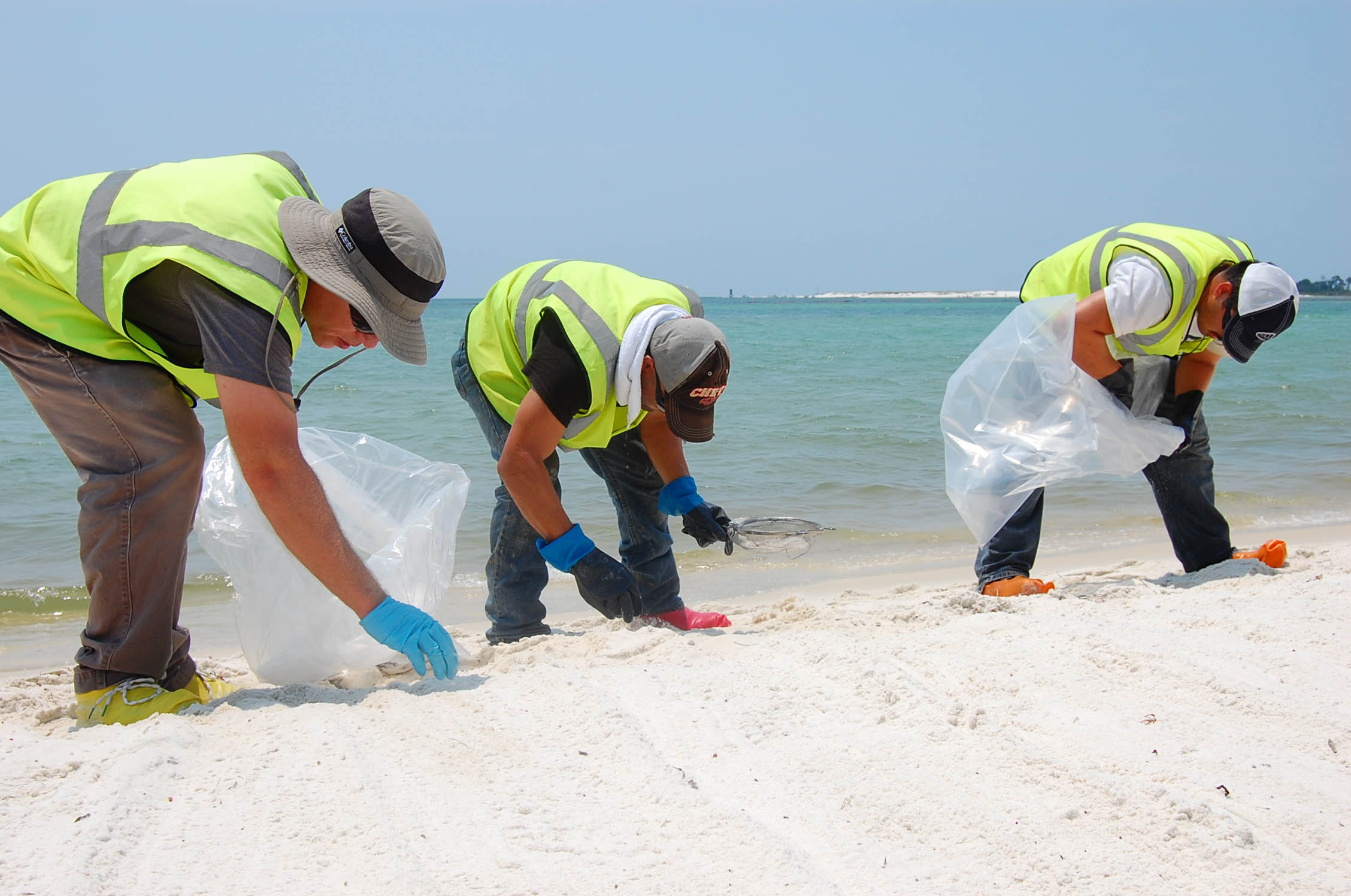 Workers laboriously remove small tar ball contamination from the beach at the Pensacola Naval Air Station, Florida.